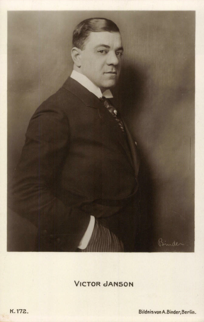 Postcard portrait of Latvian-born German actor Victor Janson (1884–1960) by Alexander Binder, Berlin.